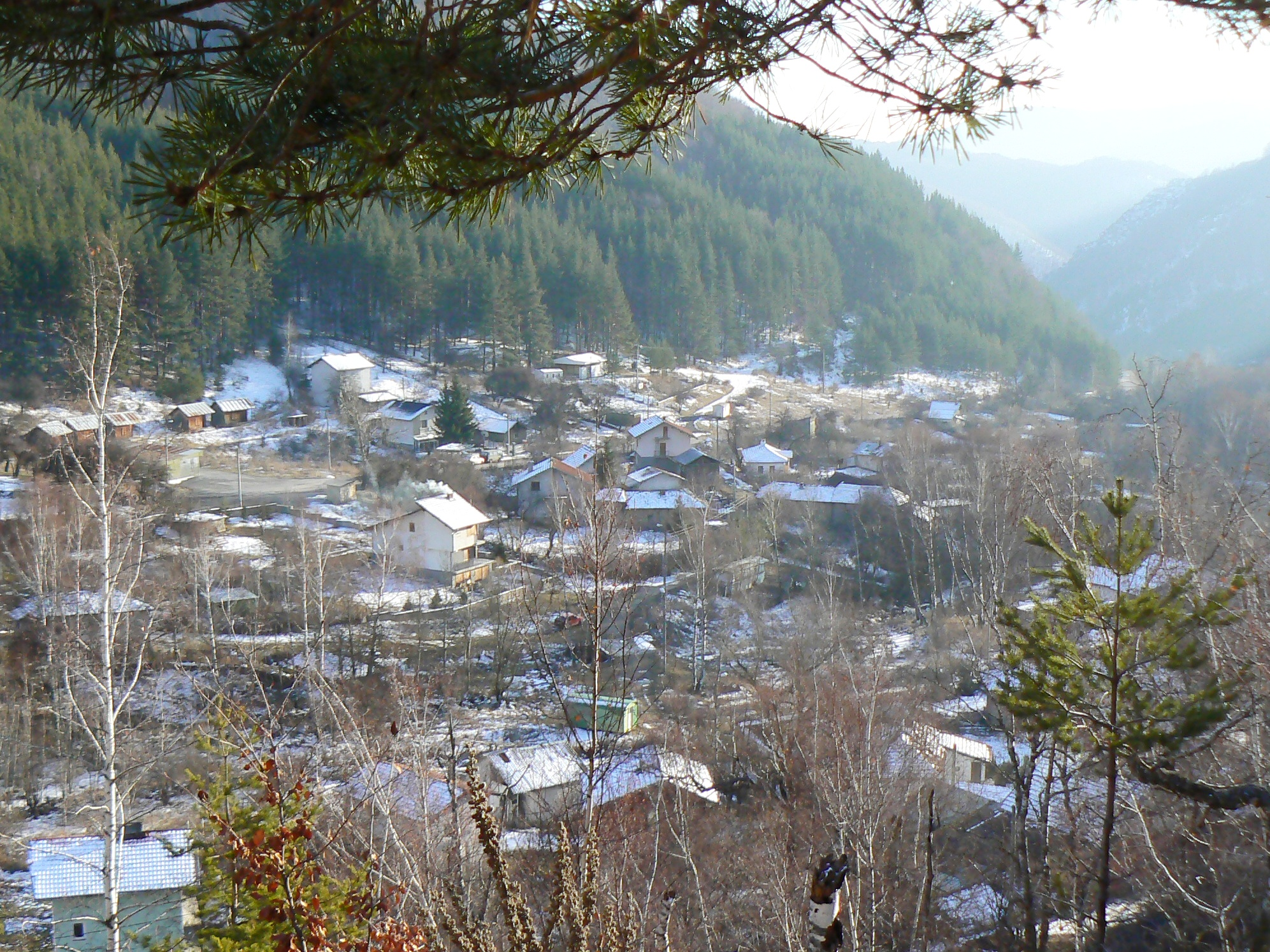 Chuypetlovo Village in Vitosha Mountain, Bulgaria. Fragment of the originally uploaded picture.